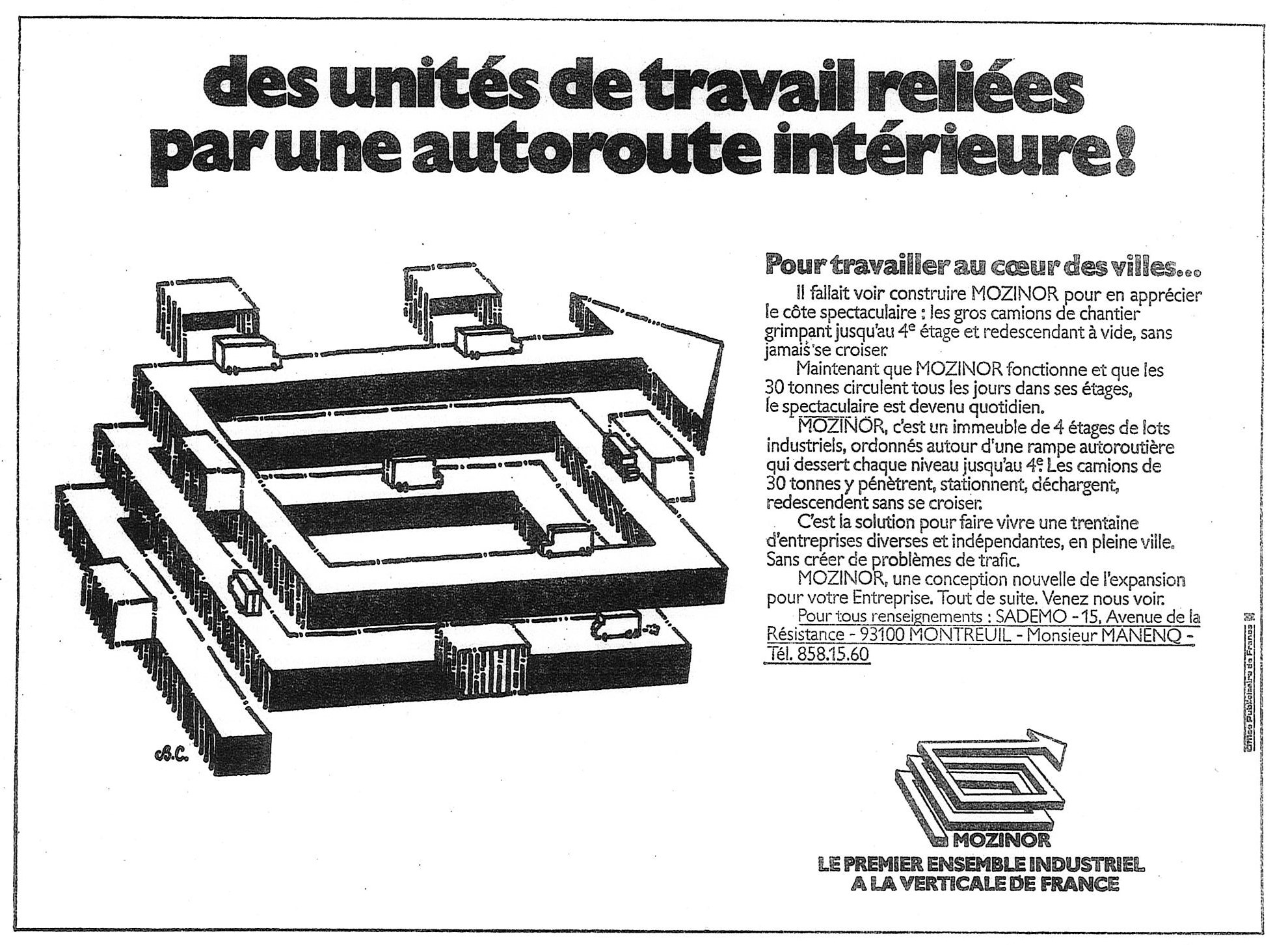 Advertisement for an industrial building, published in national newspapers, around 1976